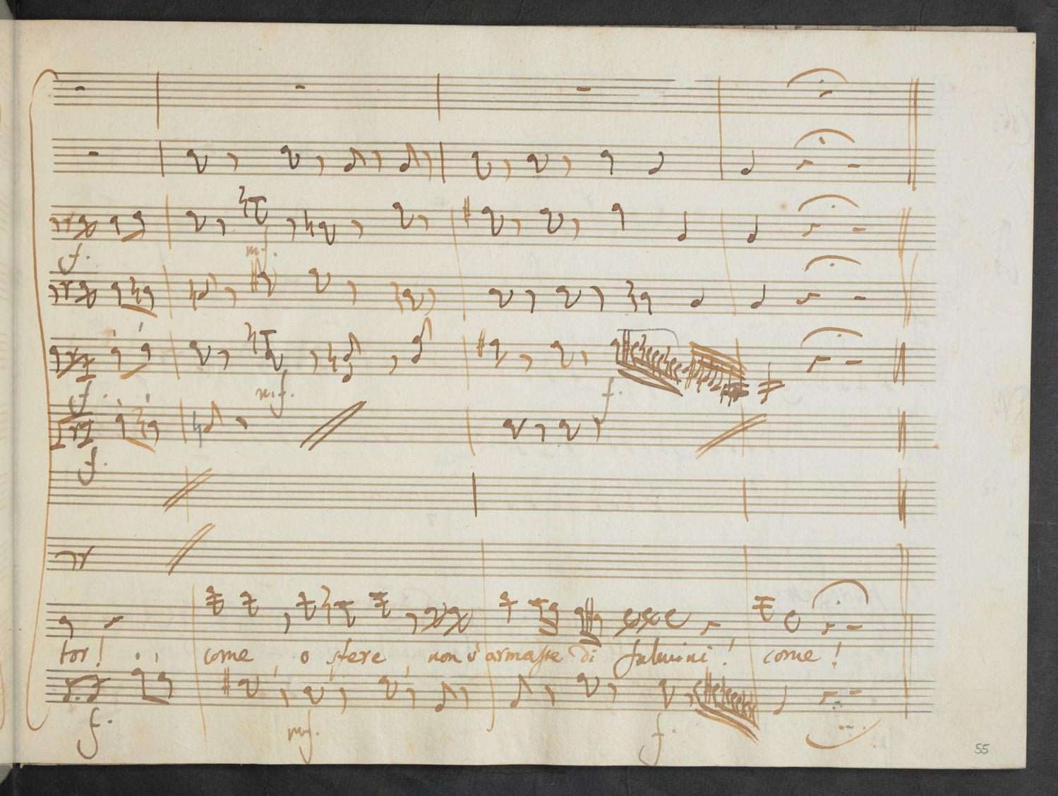 Antonio Salieri: La passione di Gesù Cristo - Come a vista di pene sì fiere (manuscript page from the autograph score)